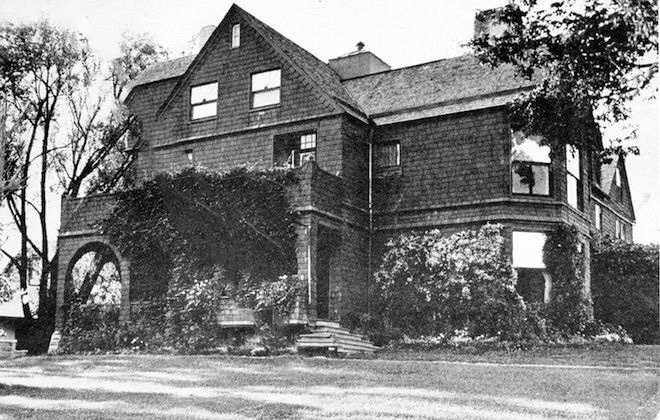 Photo of Frank Lloyd Wright's Hillside Home School in Spring Green, WI, 1887. Date of photo unknown.